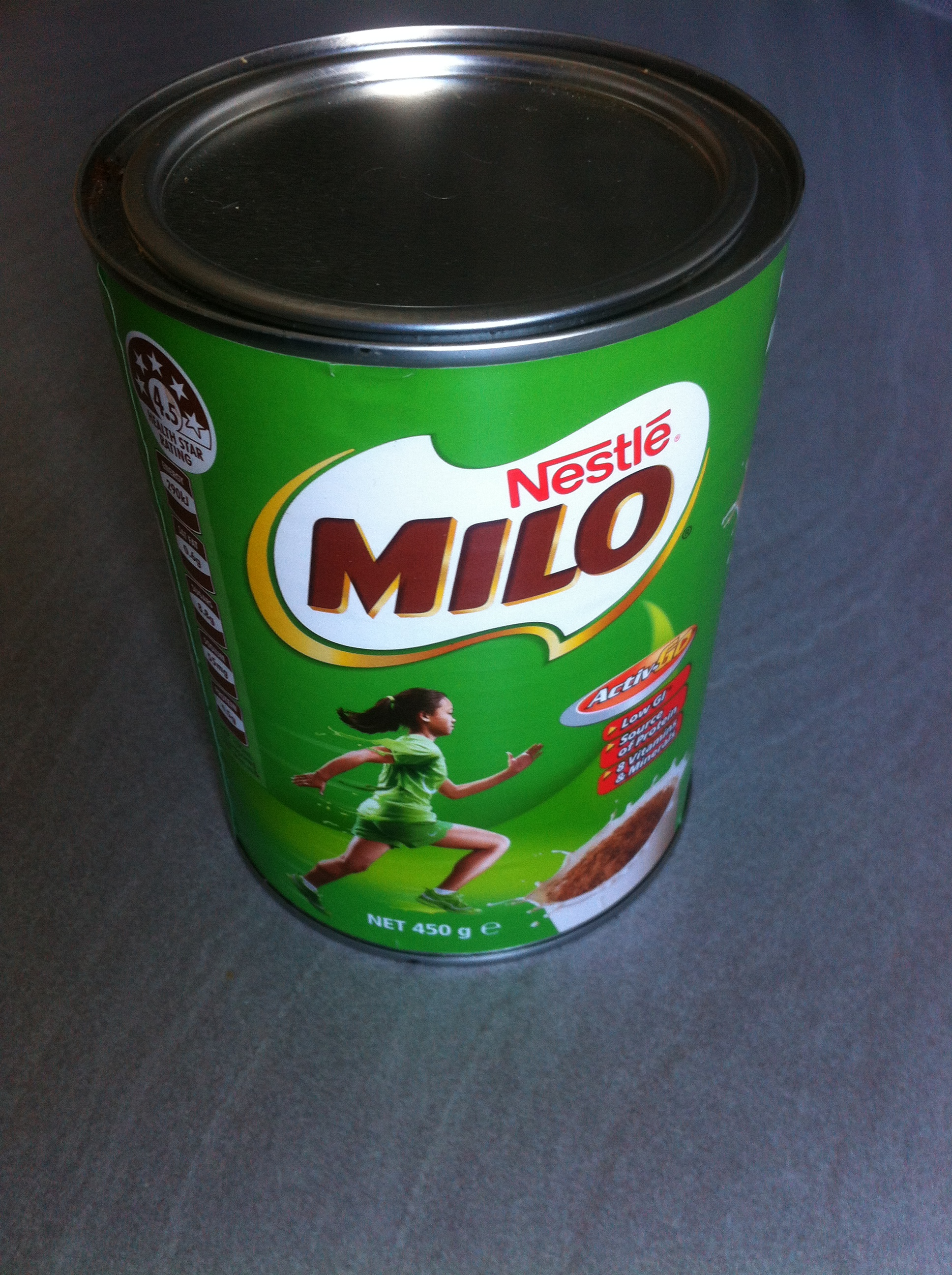 450g Milo tin 2016